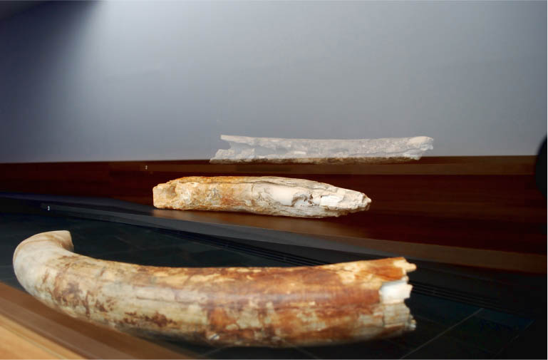 Phoenician elephant tusks with punic inscriptions. Found in a phoenician wreck in Cartagena (Spain).